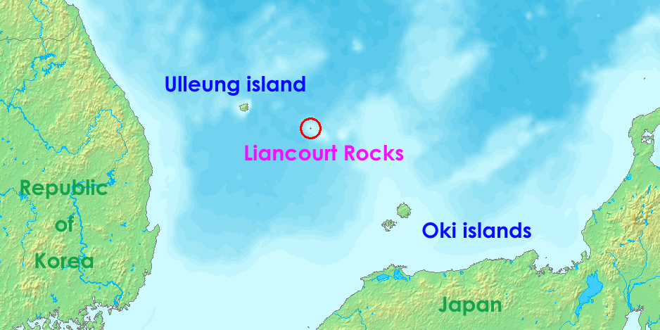 Liancourt rocks, in Japan called Takeshima and in North and South Korea called Dokdo (Tokto).